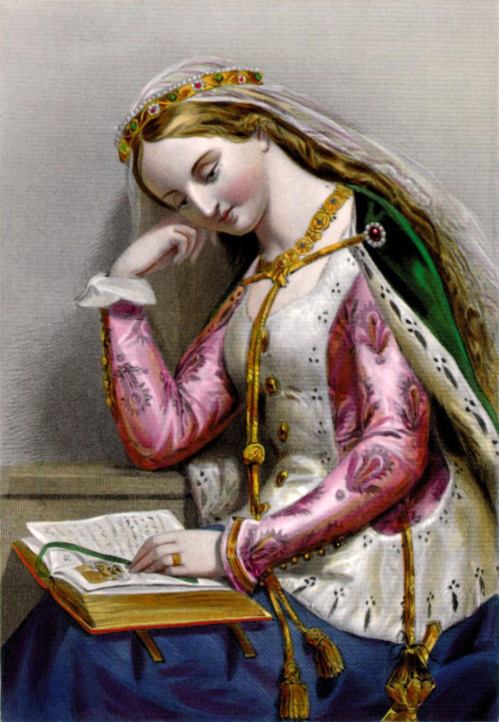 A colour engraving of Elizabeth of York, Queen of England and mother of Henry VIII